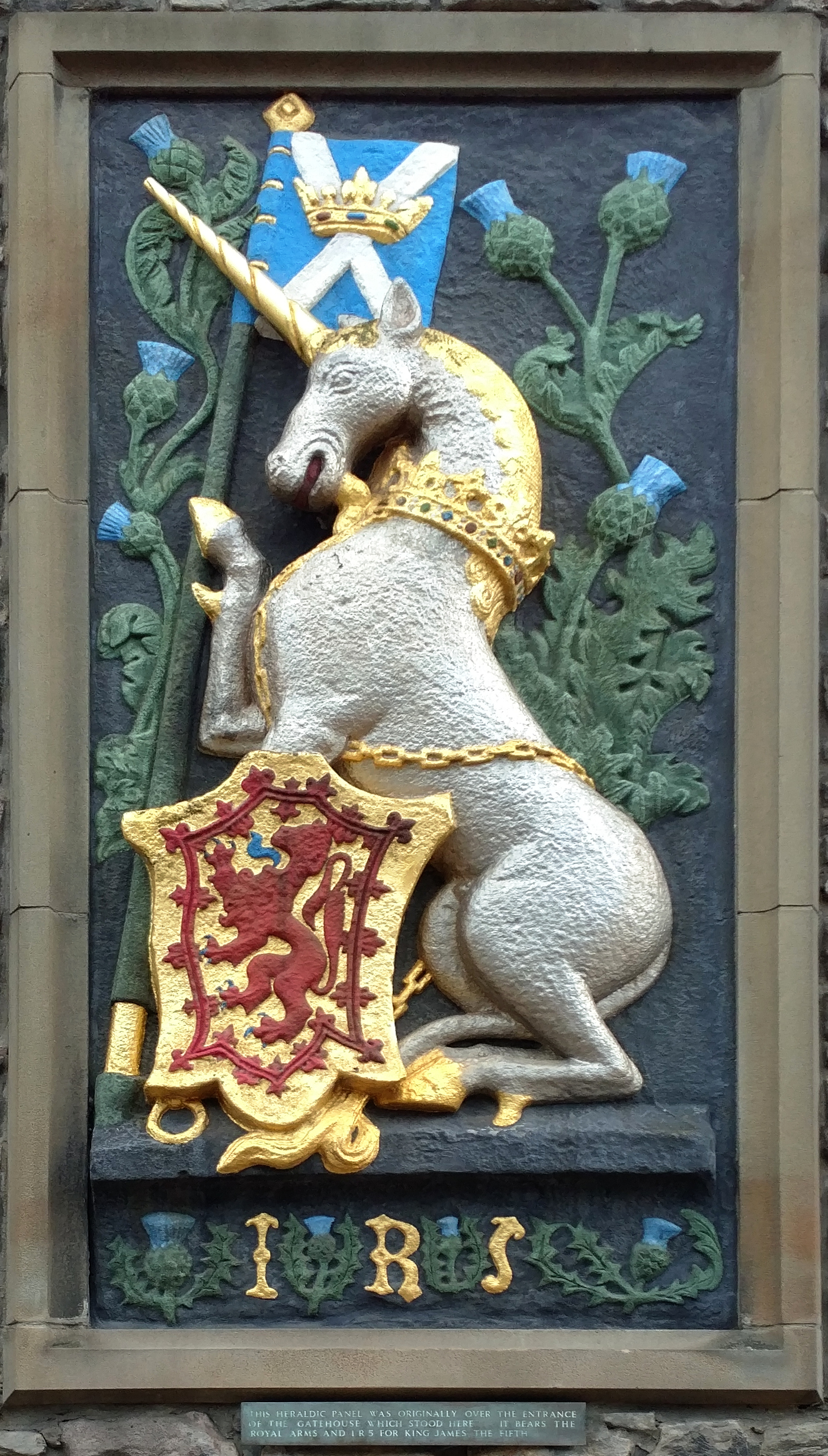 Unicorn and Thistle, heraldic panel of King James V at the gatehouse of Holyrood Palace, Abbey Strand, Edinburgh